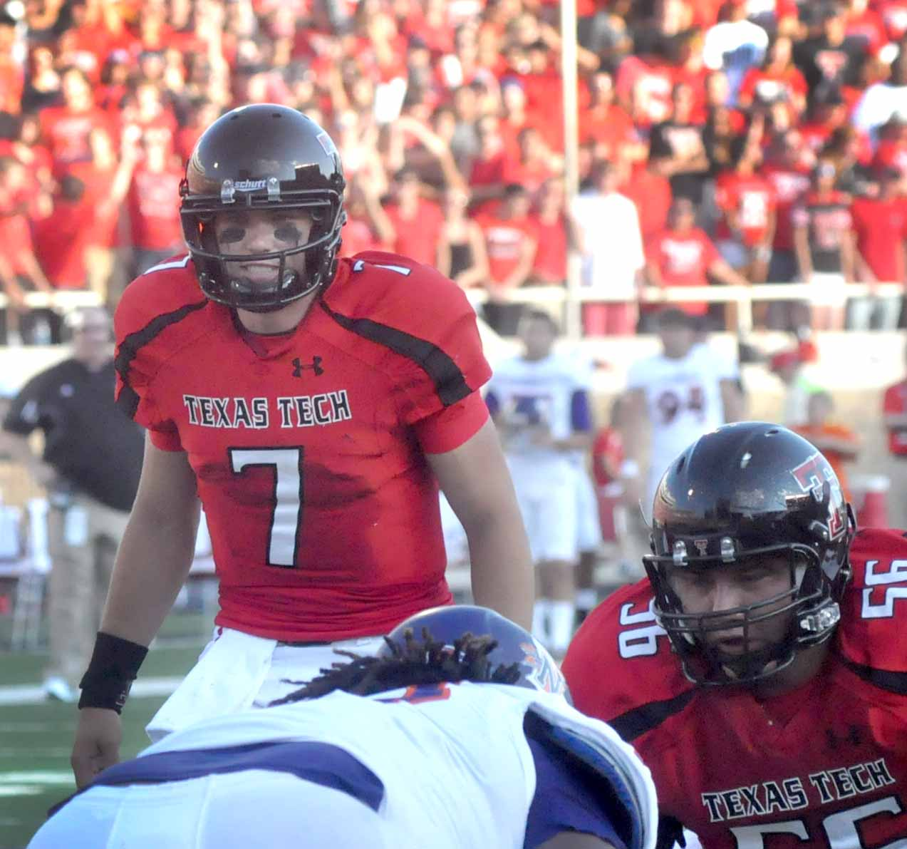 Seth Doege in action against Northwestern State (La.) in 2012 season opener for Texas Tech.